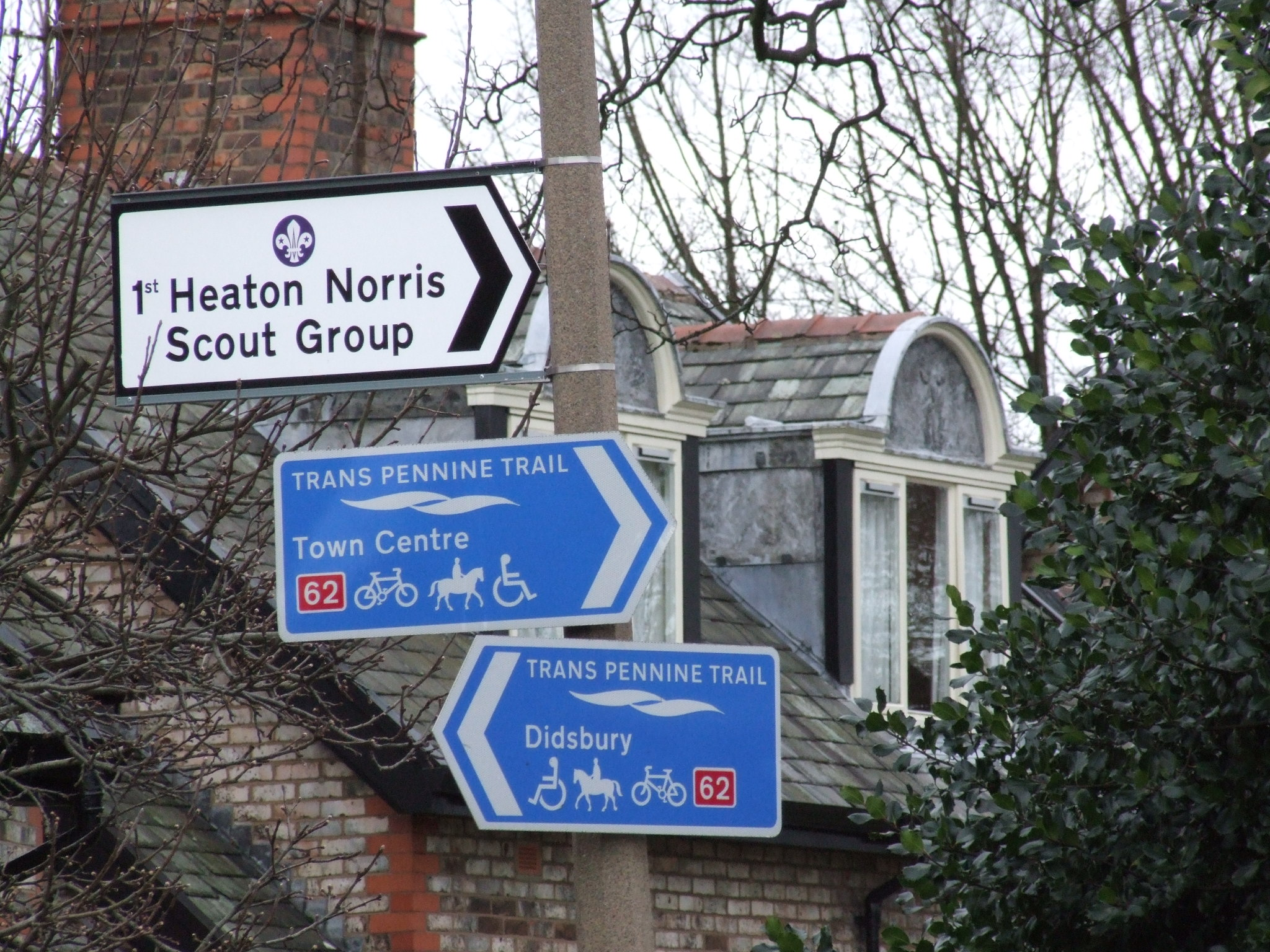 Heaton Norris is situated in Stockport, north of the River Mersey. It was a parish in the Salford hundred. The A626, A6 and A5145 pass through, as does the M60, and the Manchester/ London railway line that passes over the Stockport viaduct. Signs. Trans Penine Trails. National Cycle Route 62.